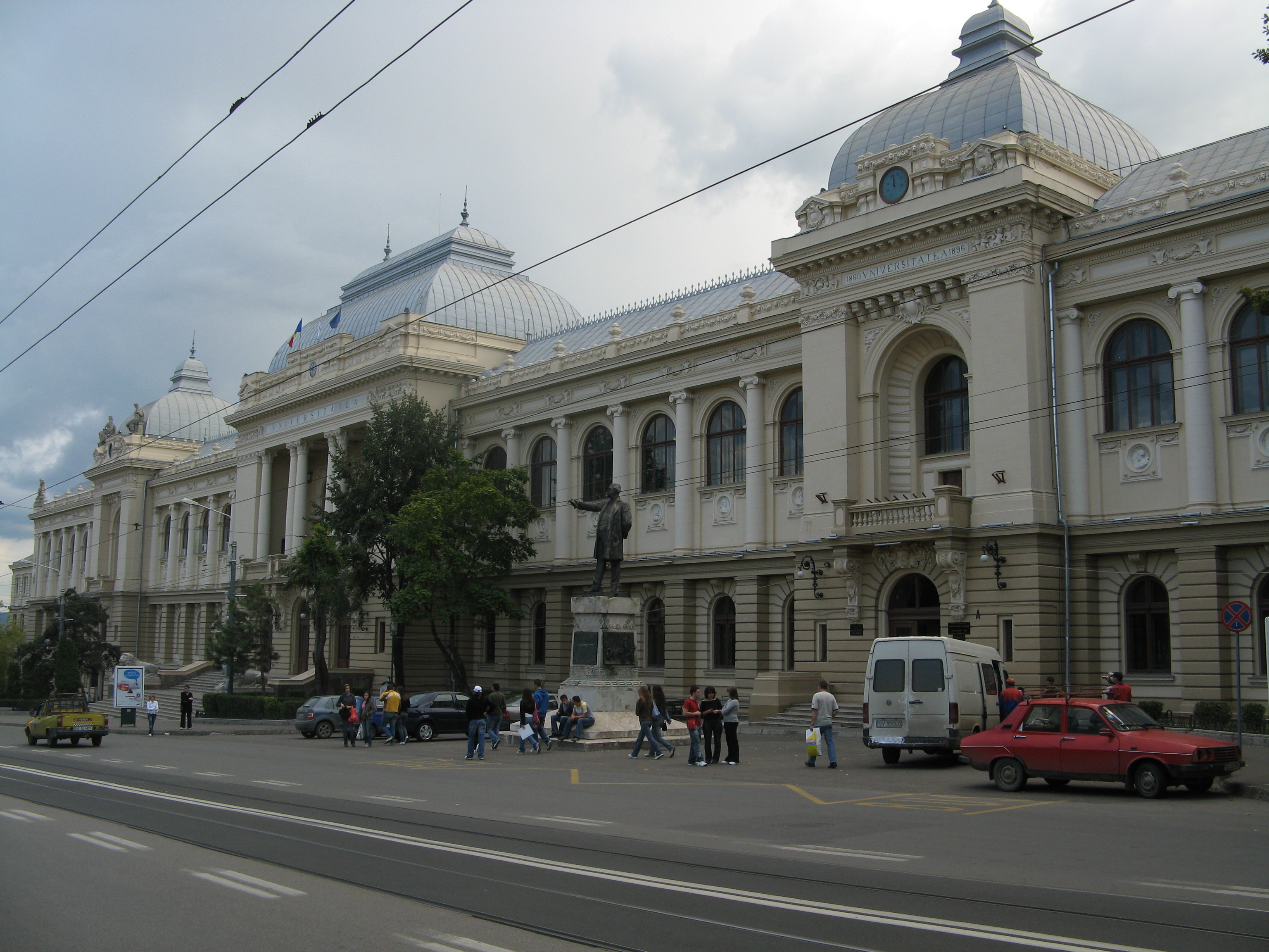 "Alexandru Ioan Cuza" University of Iaşi and "Gheorghe Asachi" Technical University of Iaşi